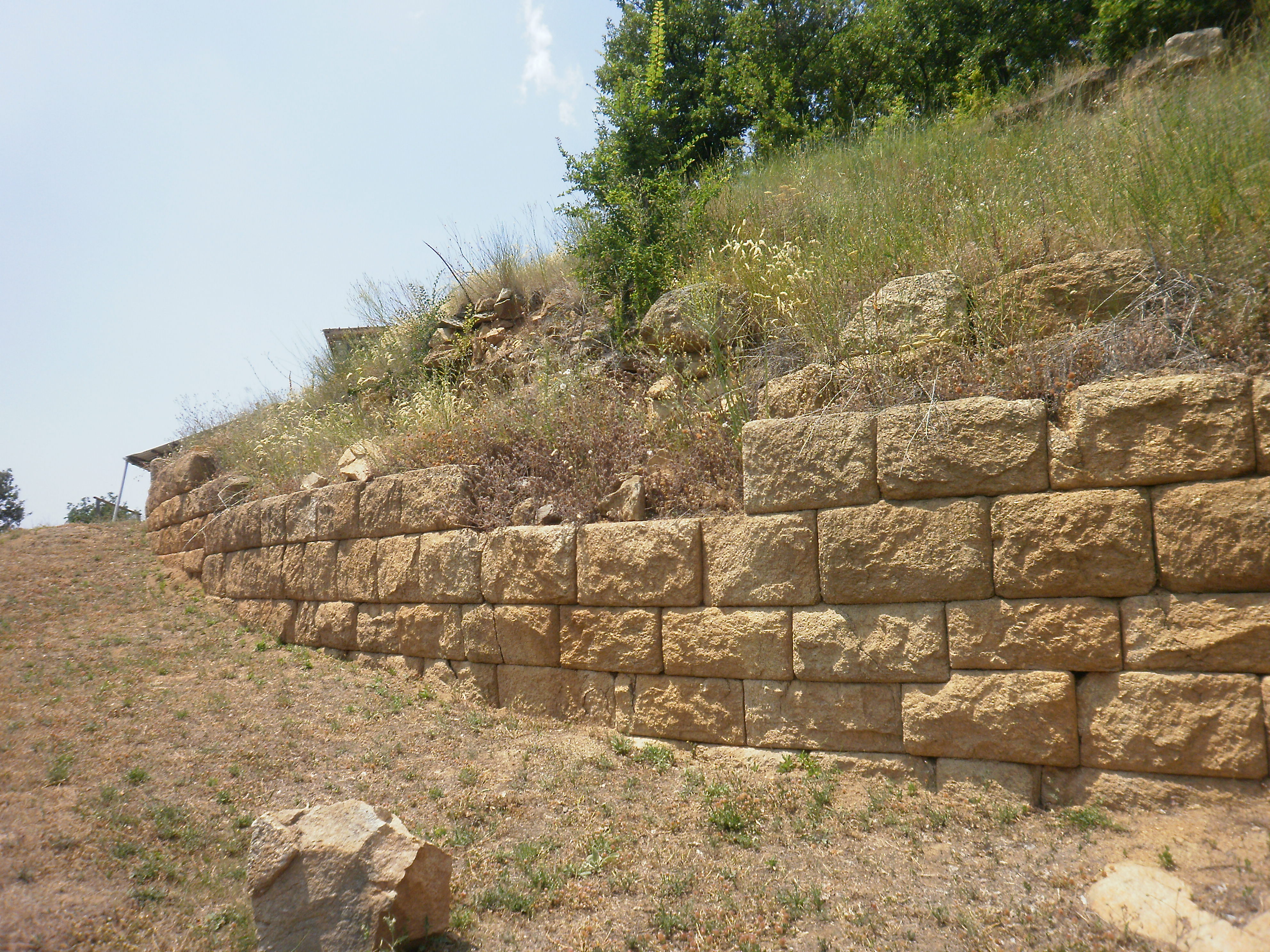 Thracian Tomb near Starosel, Bulgaria.